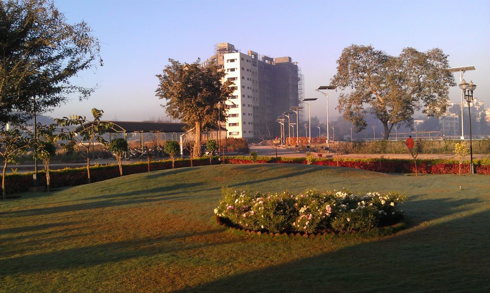 Indian Institute of Science Education and Research, Pune. View of one of the upcoming nine-storey hostel blocks from the current Hall of Residence 4 (HR-4) lawns.